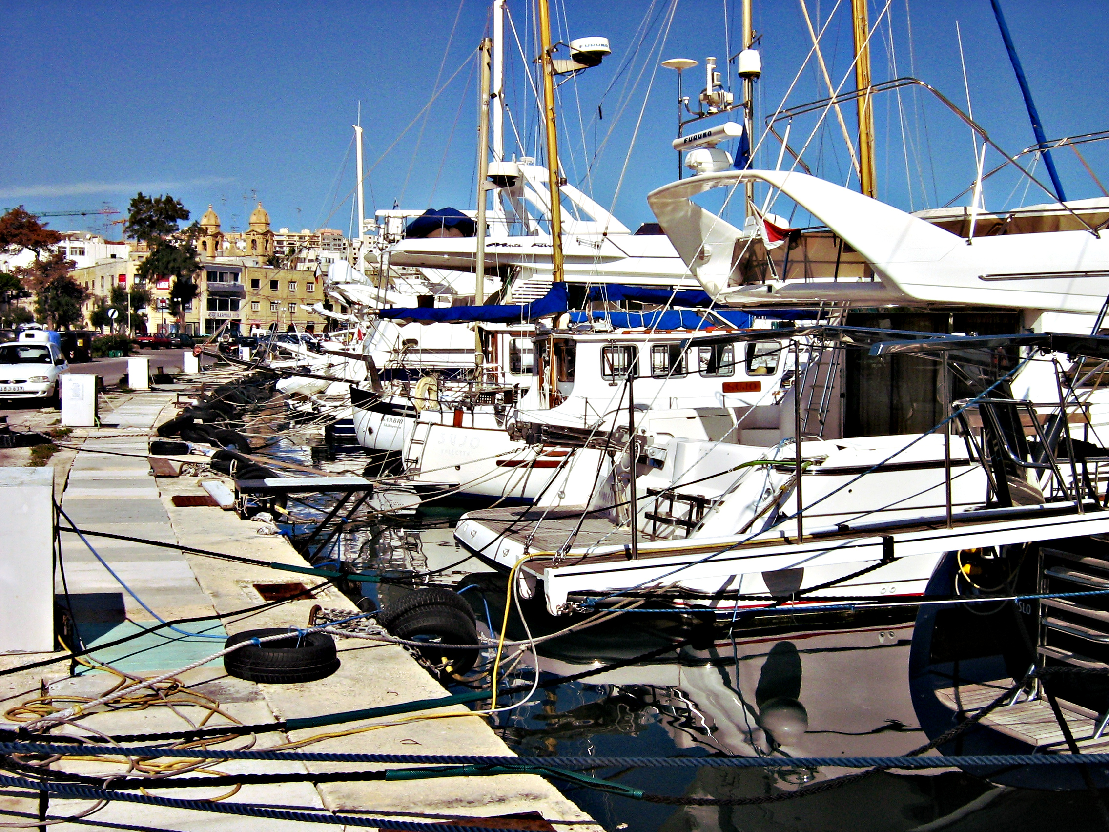 Gżira Harbour at Xatt ta' Ta' Xbiex in Gżira, Malta